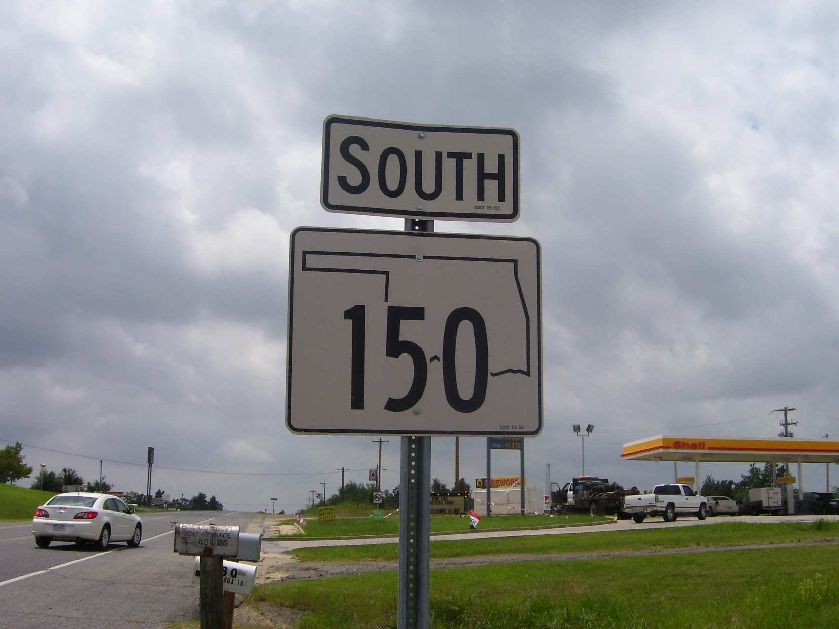 First southbound State Highway 150 shield near I-40 in McIntosh County, Oklahoma.